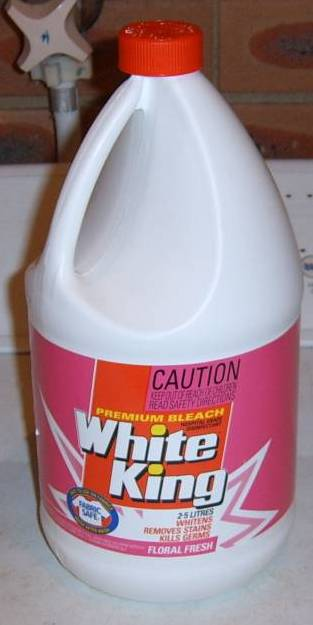 A bottle of "White King"-brand commercial bleach, resting atop my mother's Fisher & Paykel washing machine.